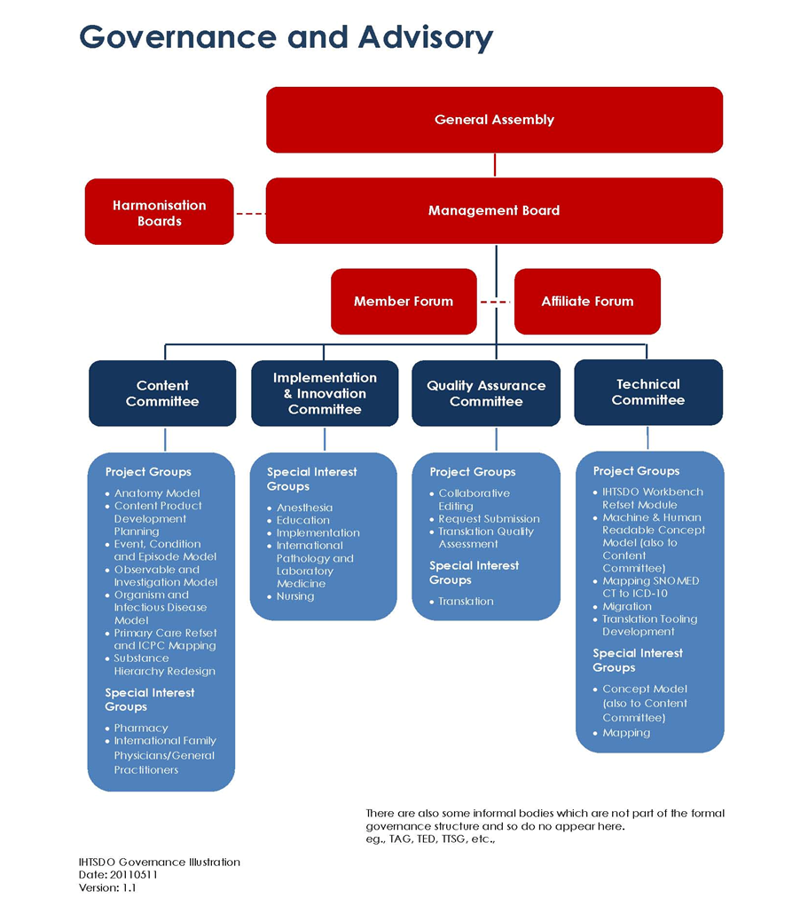 De IHTSDO bestuursstructuur